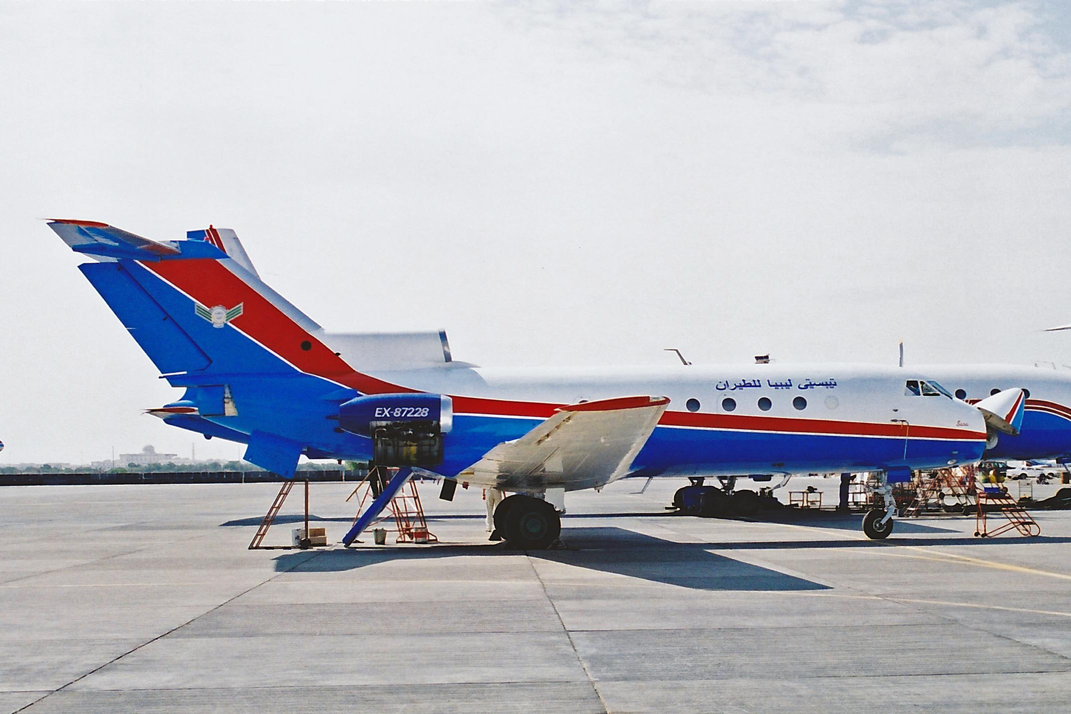 Phoenix Airlines, to be operated for Tibesti Air, Libya.